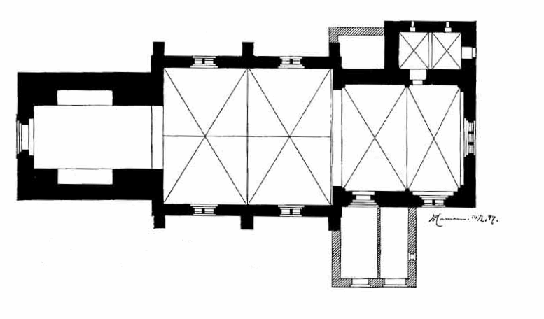 Footprint of the Church in Beidendorf, Mecklenburg, Germany